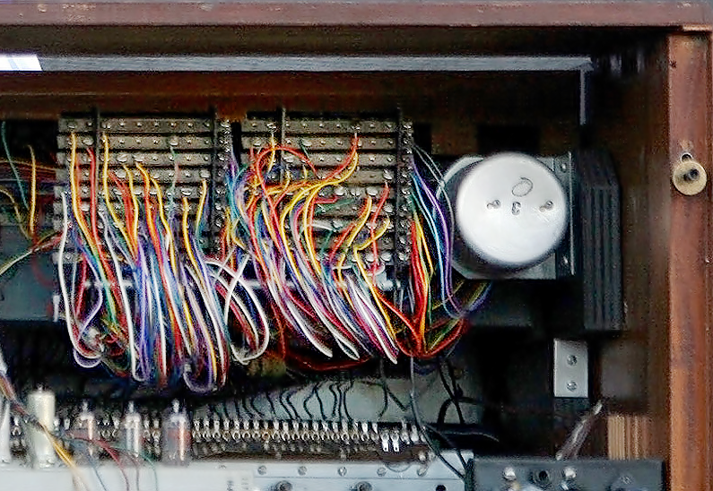 Charles Bradley & The Menahan Street Band, Jazz Fest Wien 2011 (in front of the Rathaus in Vienna).